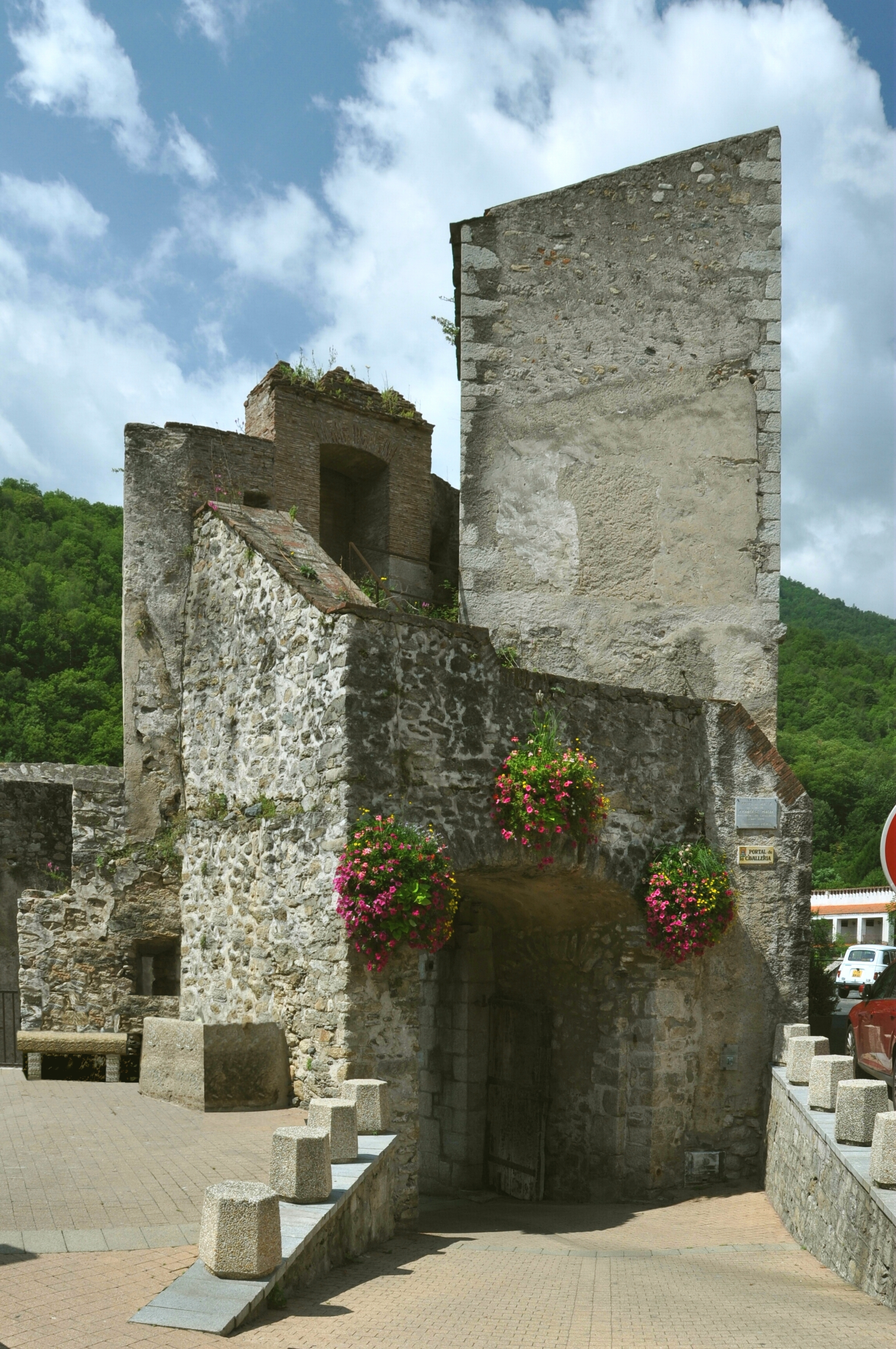 Prats-de-Mollo-la-Preste, France: Porte d'Espagne (called Portal de la Cavalleria), 18th century, view from N.